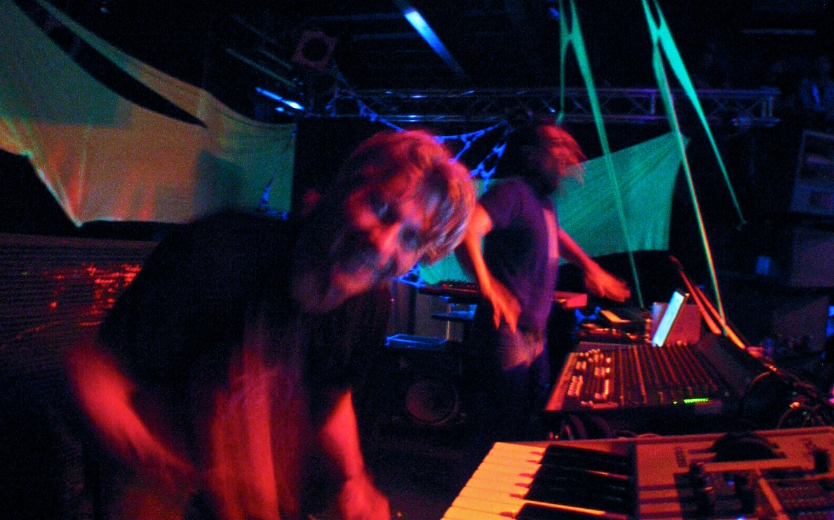 transwave@cube ( tokyo )